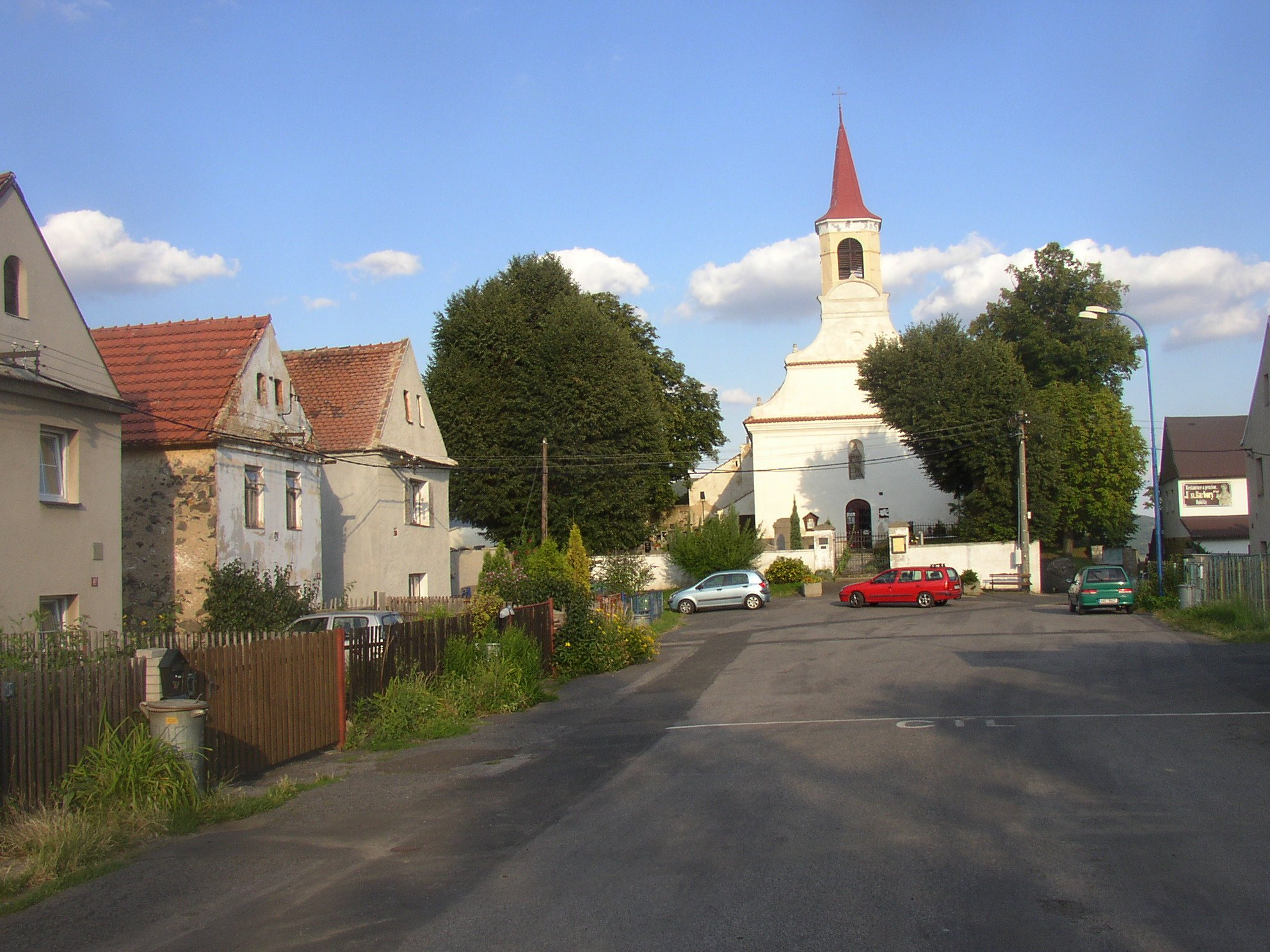 Village square and St Barbara church in Dubice, a part of Řehlovice municipality, Ústí nad Labem District, Czech Republic.